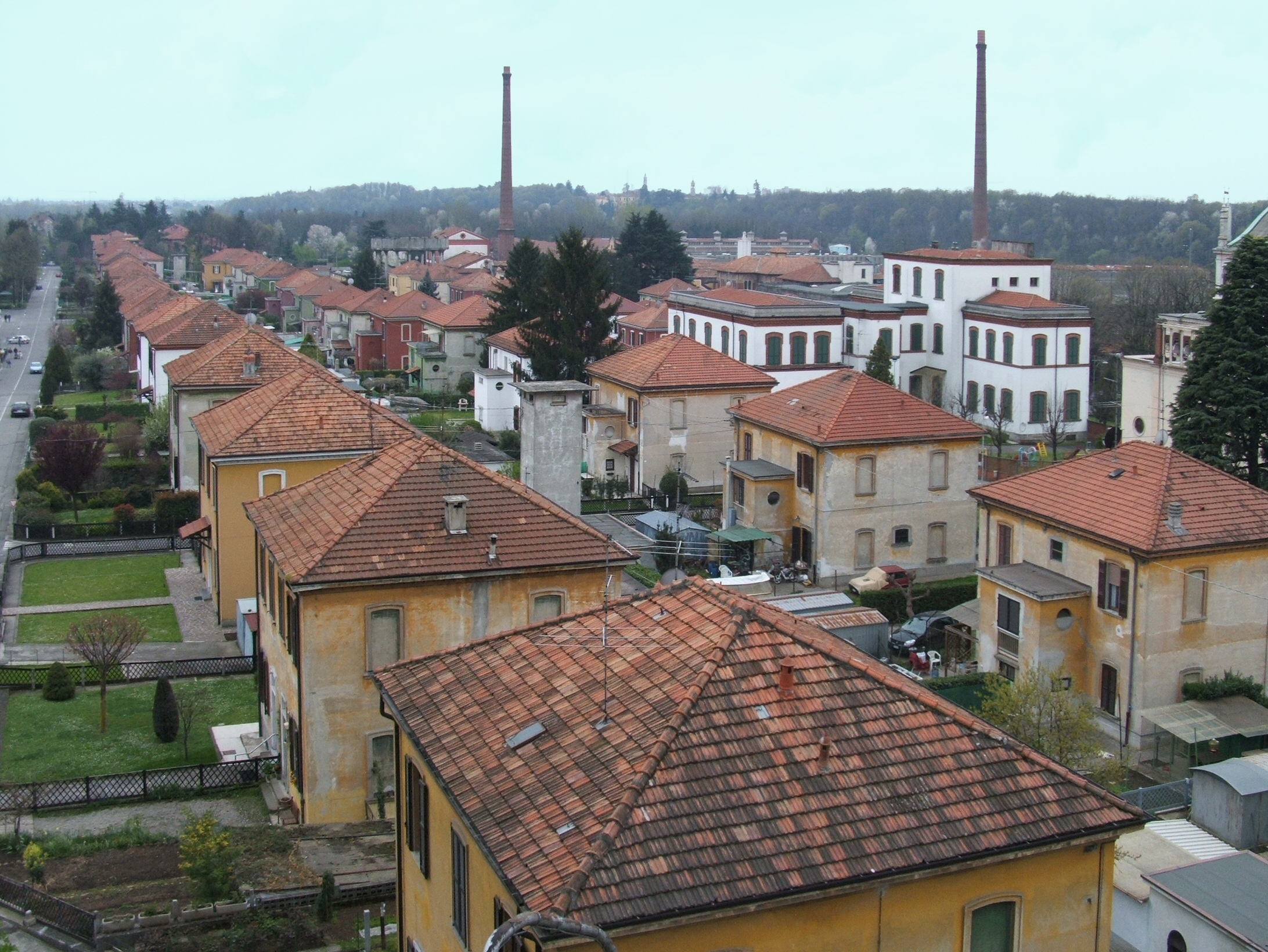 Crespi d'Adda - Bergamo - Italy, view